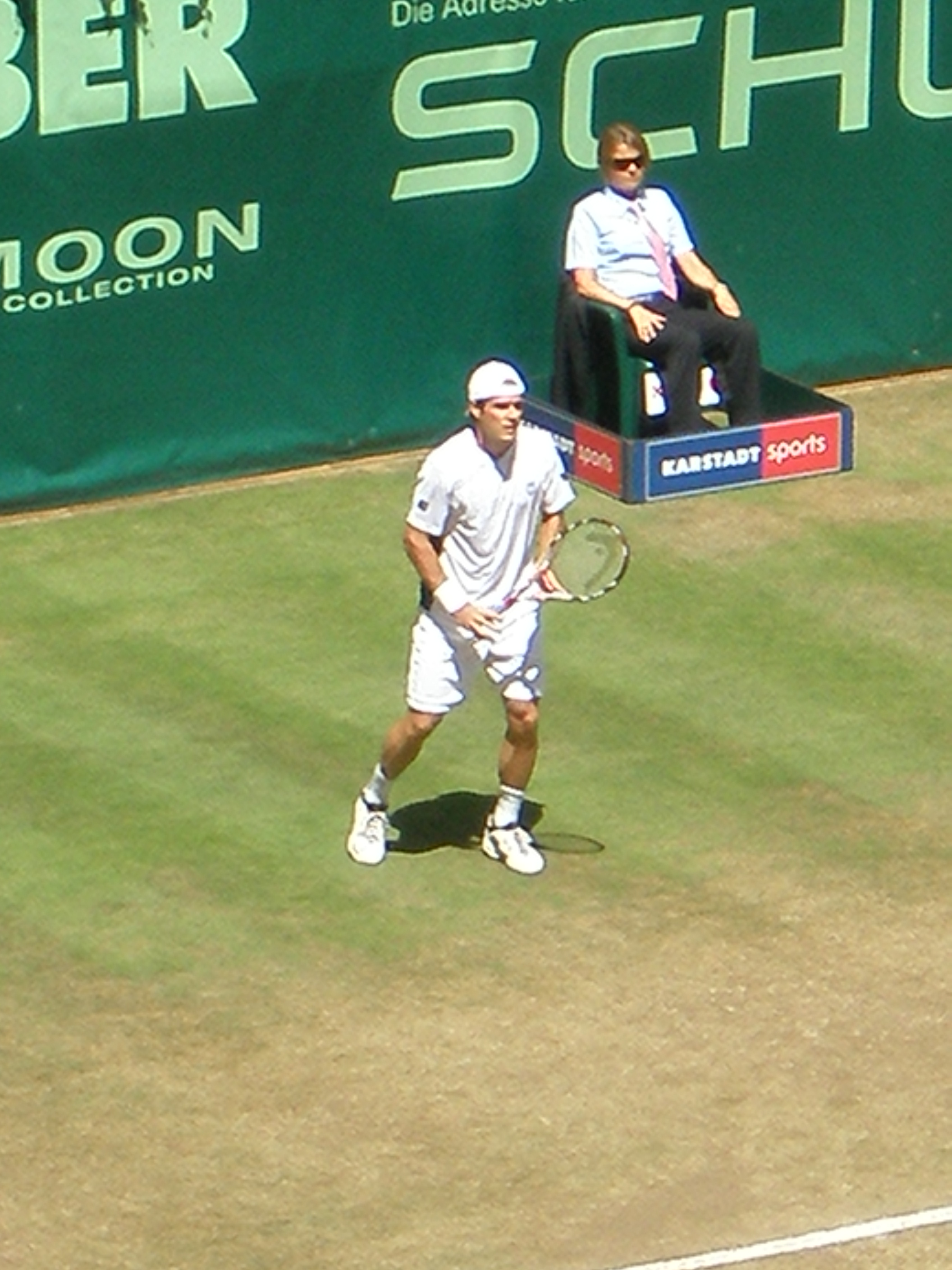 Tommy Haas during semi-final of the Gerry Weber Open 2009 against Philipp Kohlschreiber.